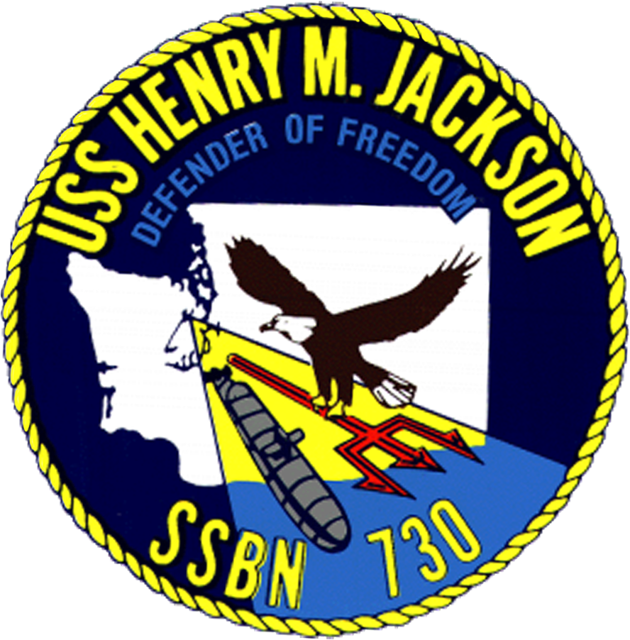 Insignia of USS Henry M. Jackson (SSBN 730).